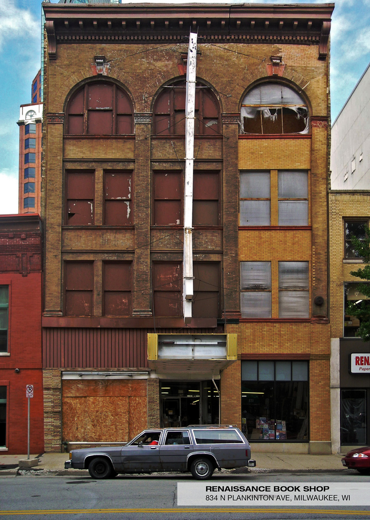 Renaissance Book Store, Milwaukee, WI